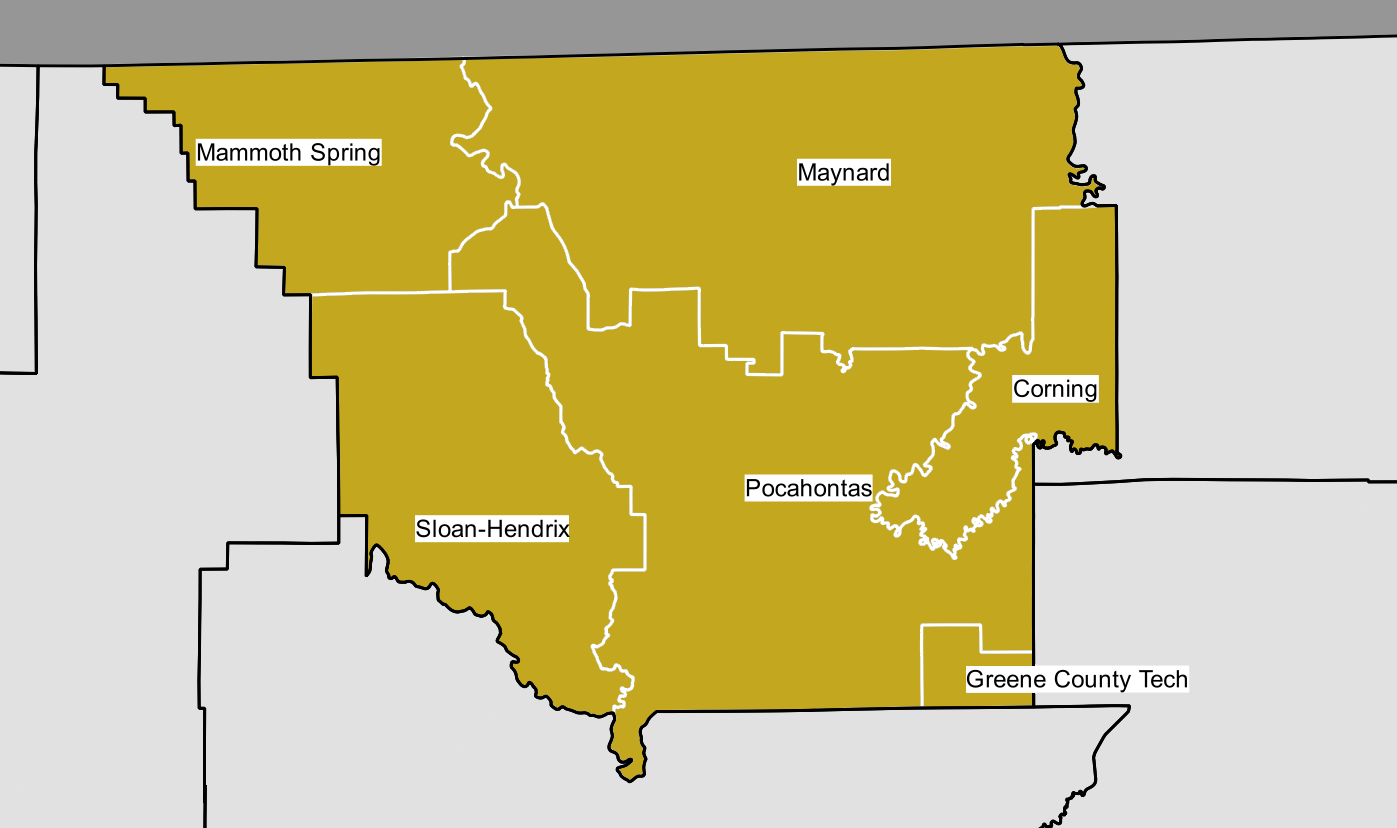 Map of all public school districts in Randolph County, AR (mustard) This graphic was created with QGIS Counties Data source: Arkansas GIS Office. Data Provided by Arkansas State Highway and Transportation Department, In Cooperation With The U.S. Department of Transportation Updated 2014-10-16 Public School District Boundary (polygon) (only shown within county of interest): Data source: Arkansas Secretary of State and the Arkansas Geographic Information Systems Office Updated: 2016-07-22